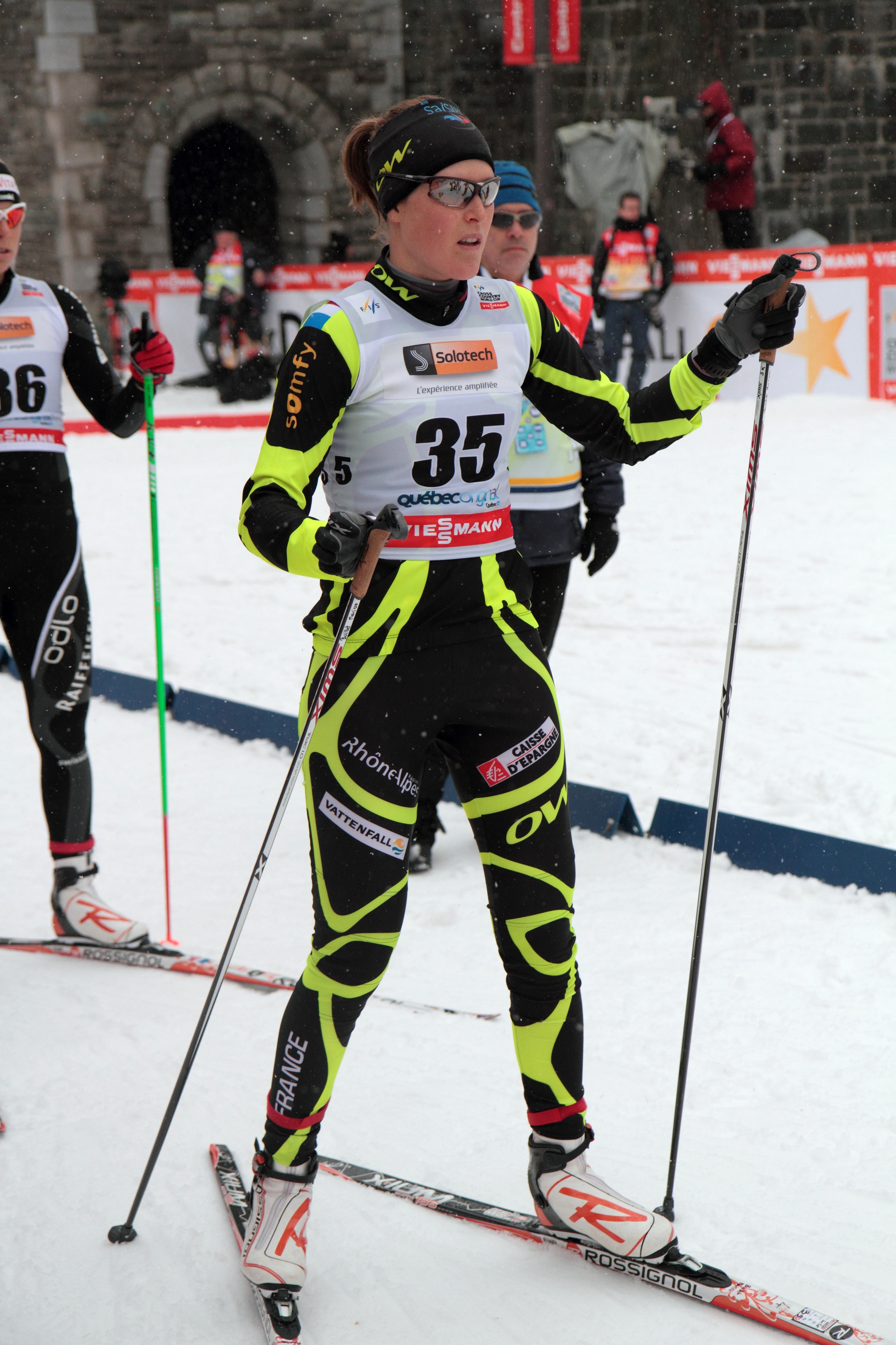 Marion Buillet, FIS Cross-Country World Cup 2012, Quebec, Canada.